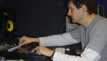 Thomas Raber at work in his Studio.